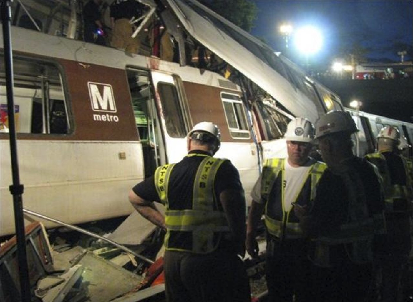 NTSB file ID 422857. Original caption, "NTSB photo of accident investigators on scene"